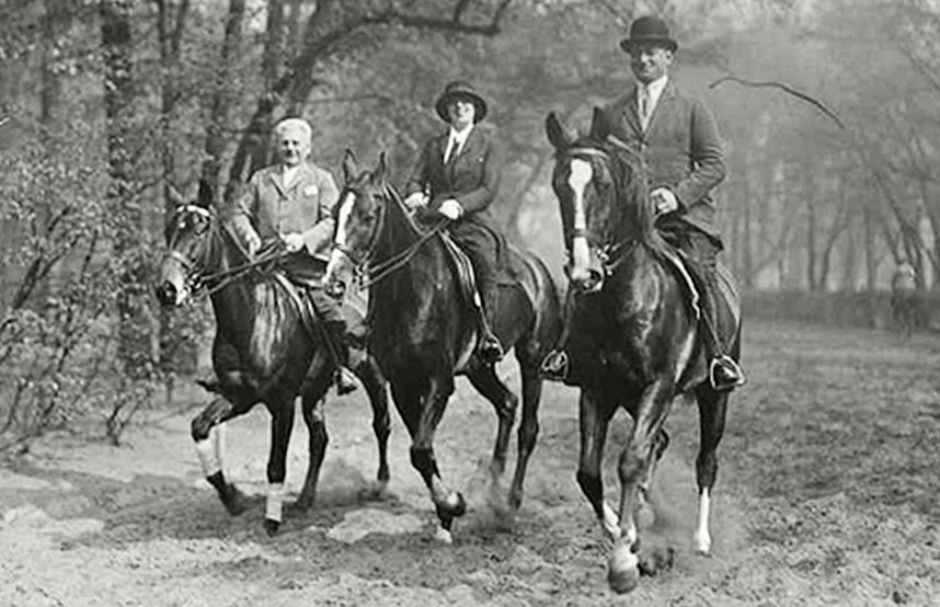 Joseph (right) and Friederike (Friedl) Roth nee Reichler horseback riding with an unidentified man